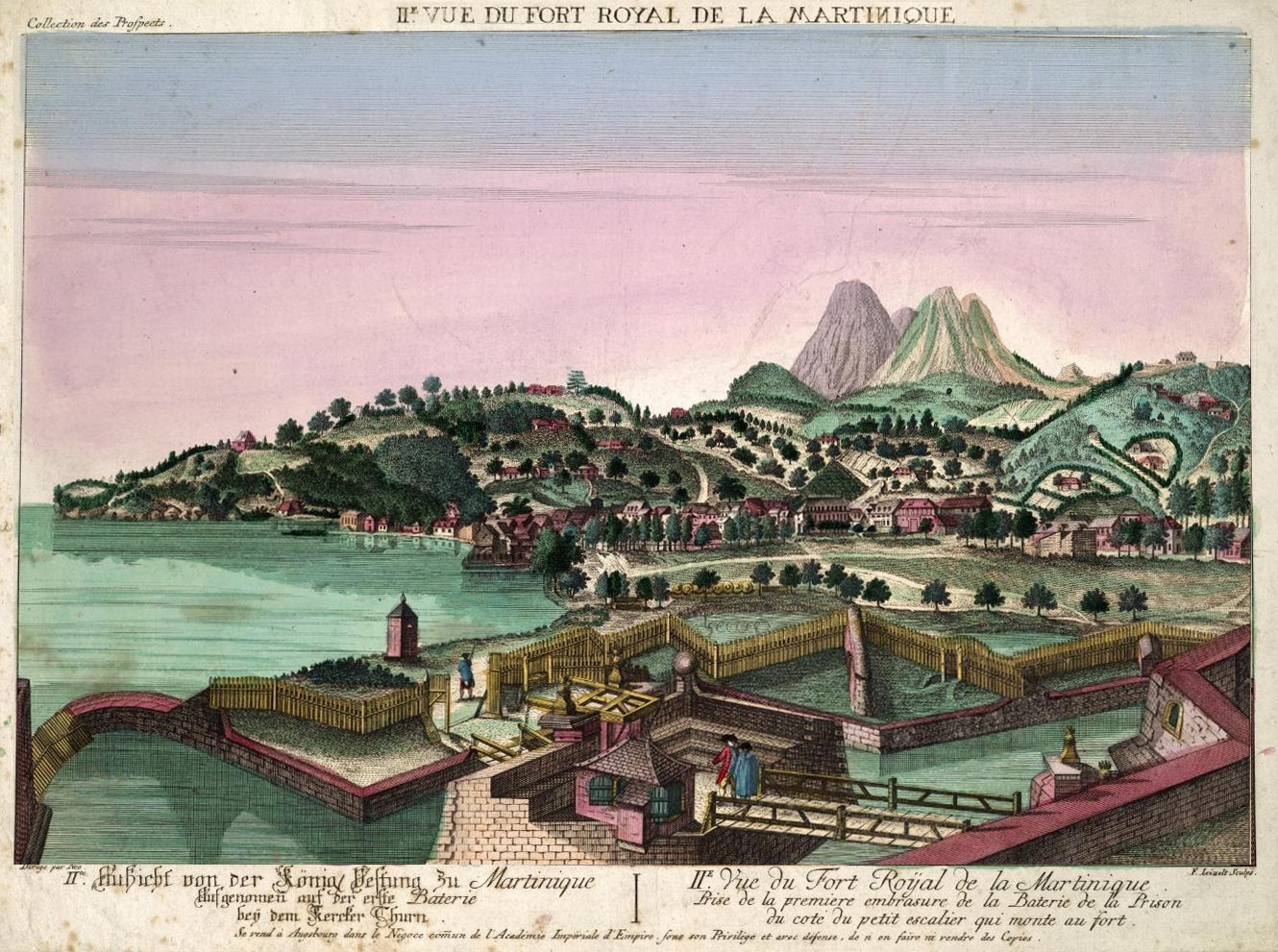 View of Fort Royal in Martinique.